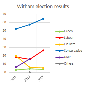 Witham election results